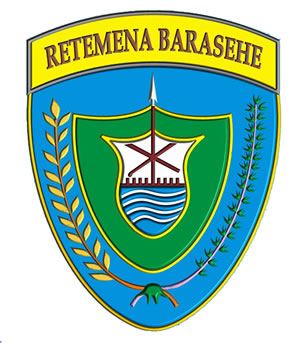 Coat of Arms (Lambang) of Regency (Kabupaten) Buru, Provinsi Maluku (the Molucca islands, aka The Spice Islands), Indonesia